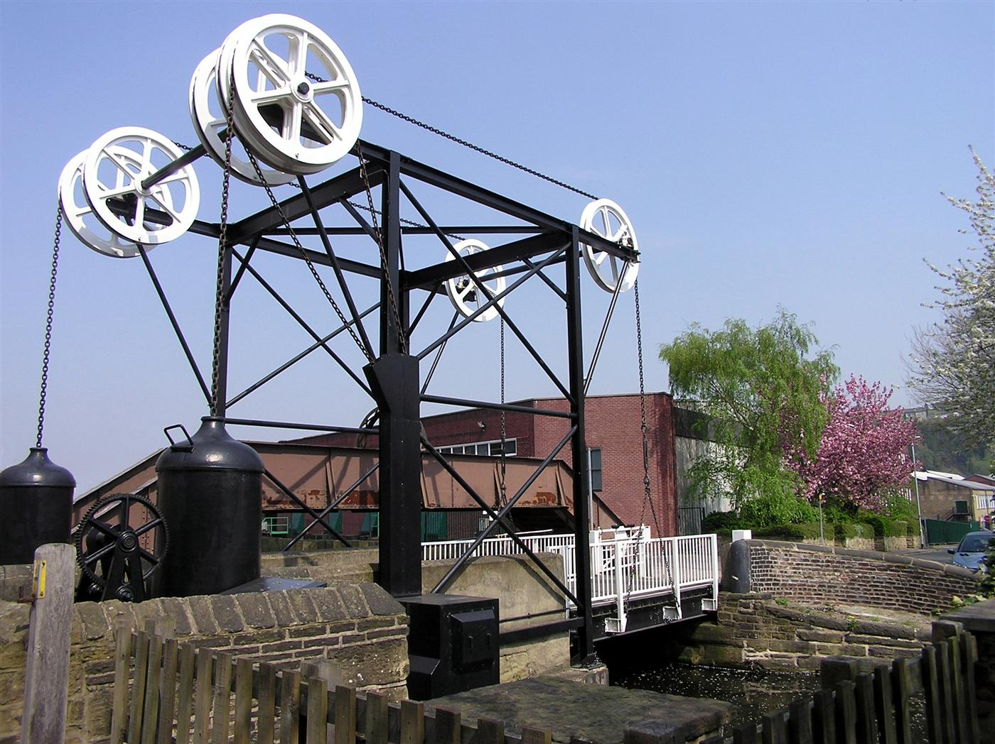 Photo of the Windlass Lifting Bridge at Turnbridge, Huddersfield. This bridge allows Vehicular Traffic to cross the Canal from St Andrews road to the rear of the sports centre.